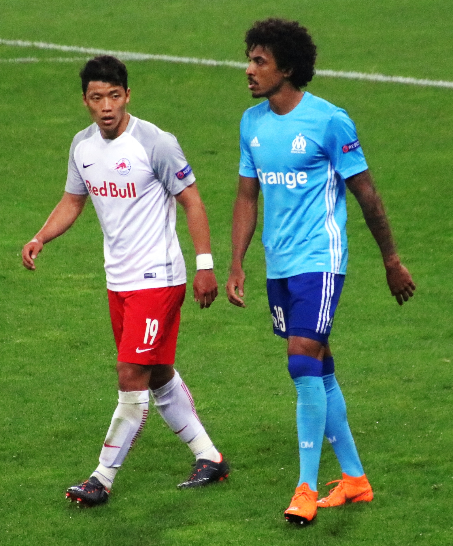 UEFA Euroleague semifinal 2nd leg